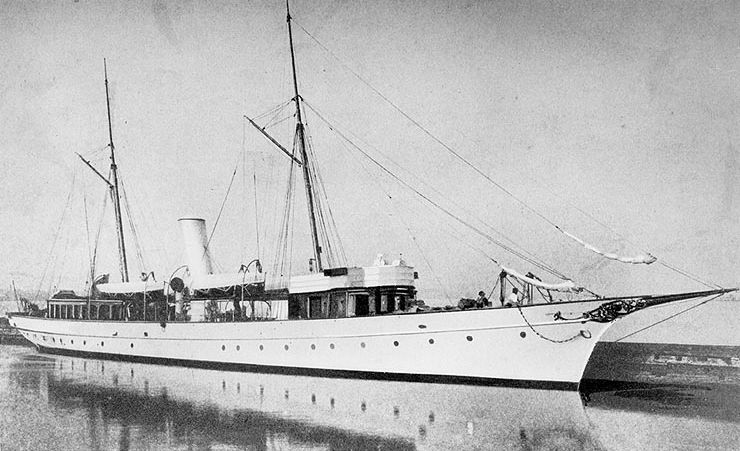 Wadena (American Steam Yacht, 1891) In port, prior to World War I. This yacht was lengthened fifteen feet amidships in 1894. She was acquired by the Navy on 25 May 1917 and placed in commission as USS Wadena (SP-158) on 14 January 1918. Stricken on 24 April 1919, she was sold on 12 July 1920. The original print is in National Archives' Record Group 19-LCM. U.S. Naval Historical Center Photograph.